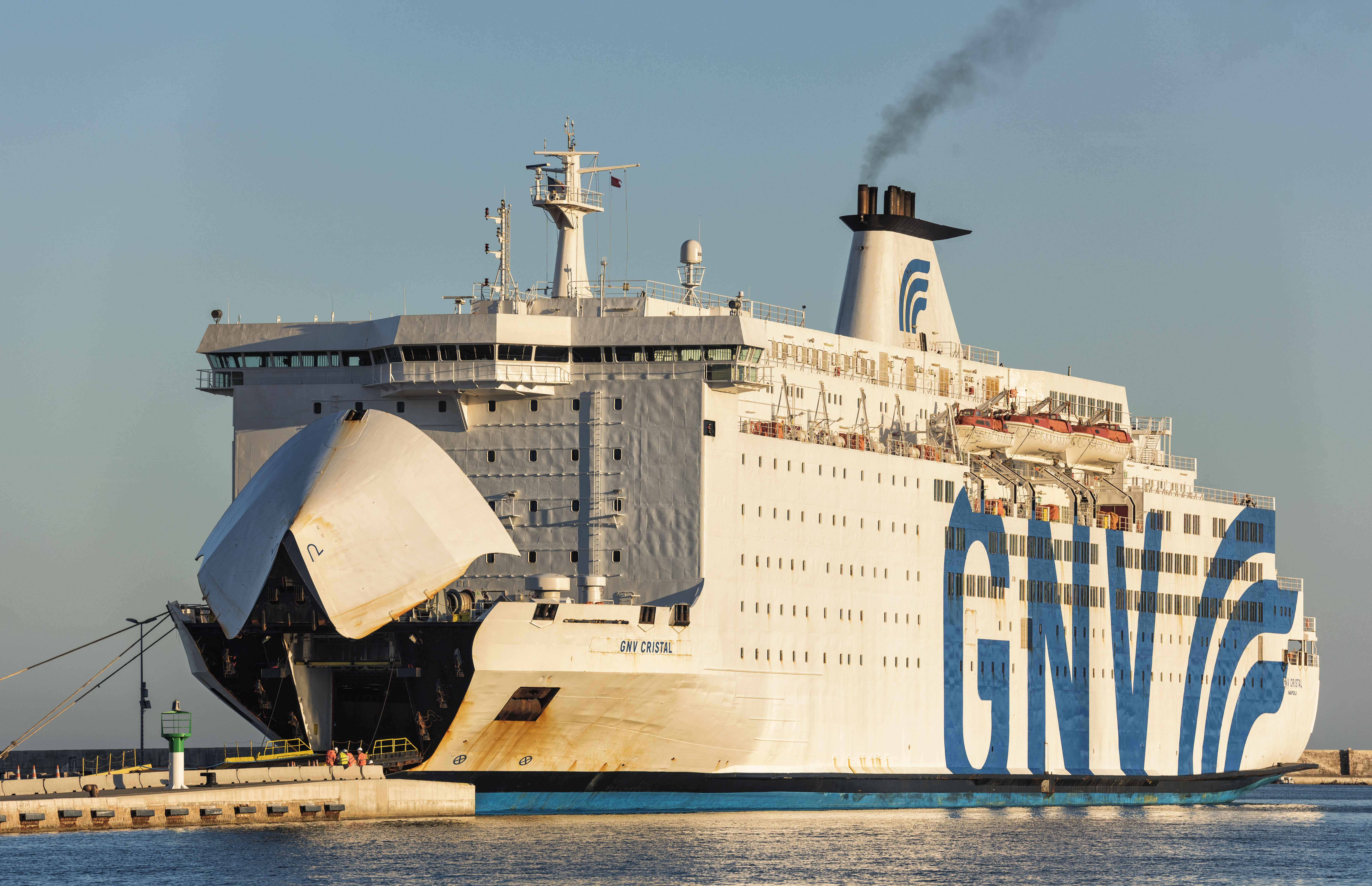 GNV Cristal (ship, 1989). Harbour of Sète - Hérault, France